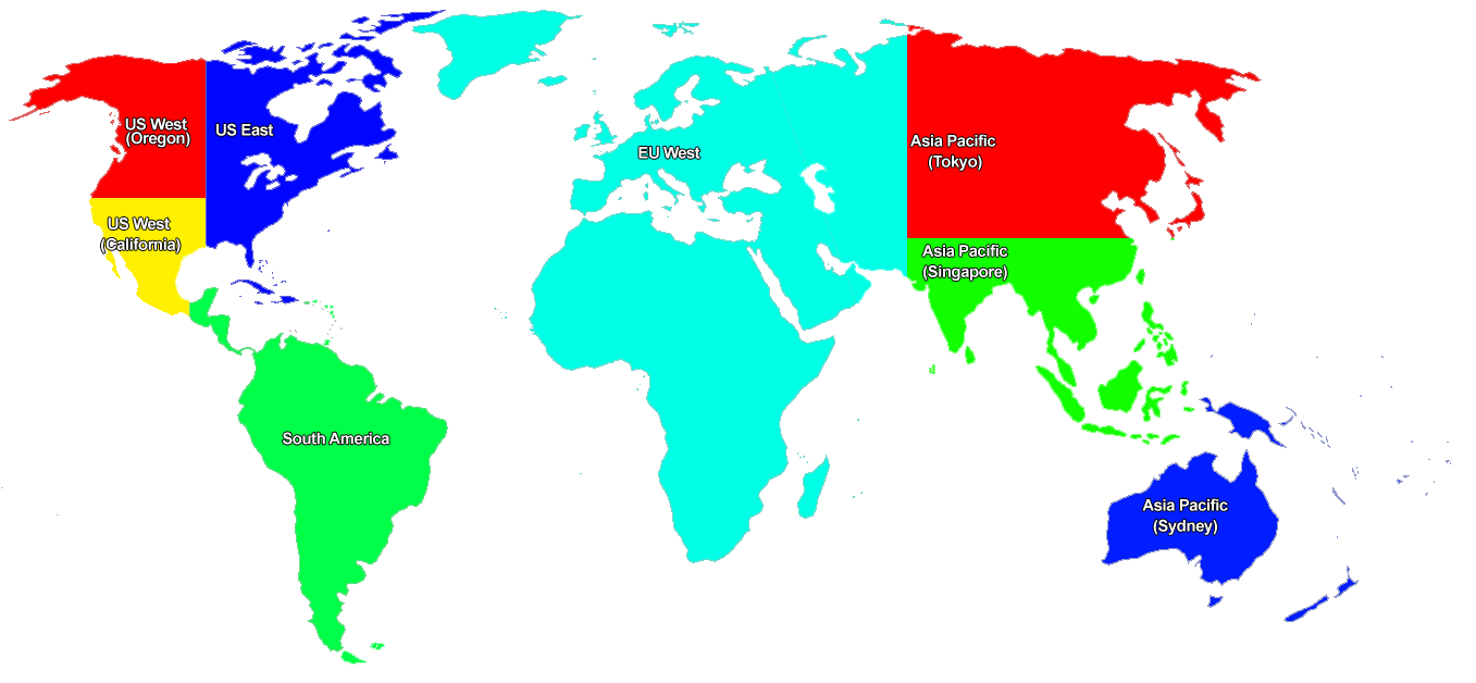 Map showing the approximate geographical regions utilized by Amazon Web Services. Map based on File:BlankMap-World-noborders.png.